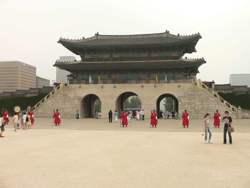 The traditional royal guards in front of Gyeongbokgung(one of the royal palaces) in Seoul.